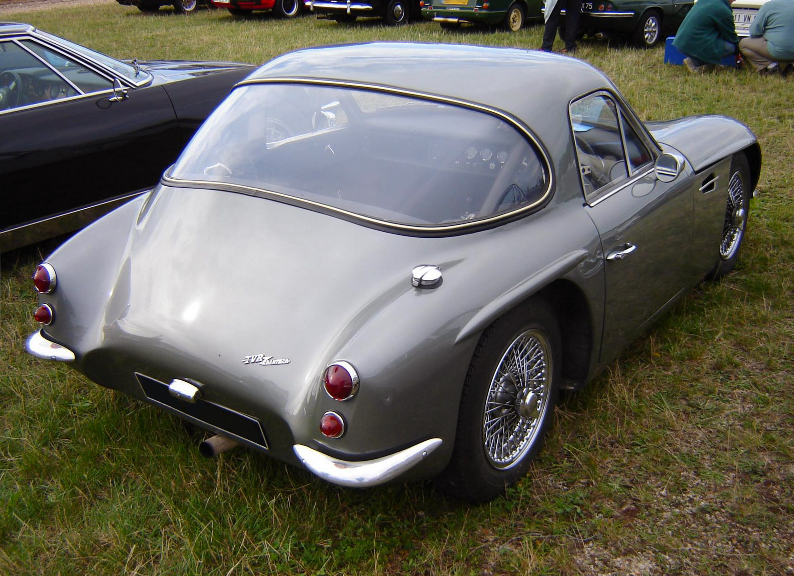 1962 TVR Grantura IIA at the Autodrome de Linas-Montlhéry, 2009